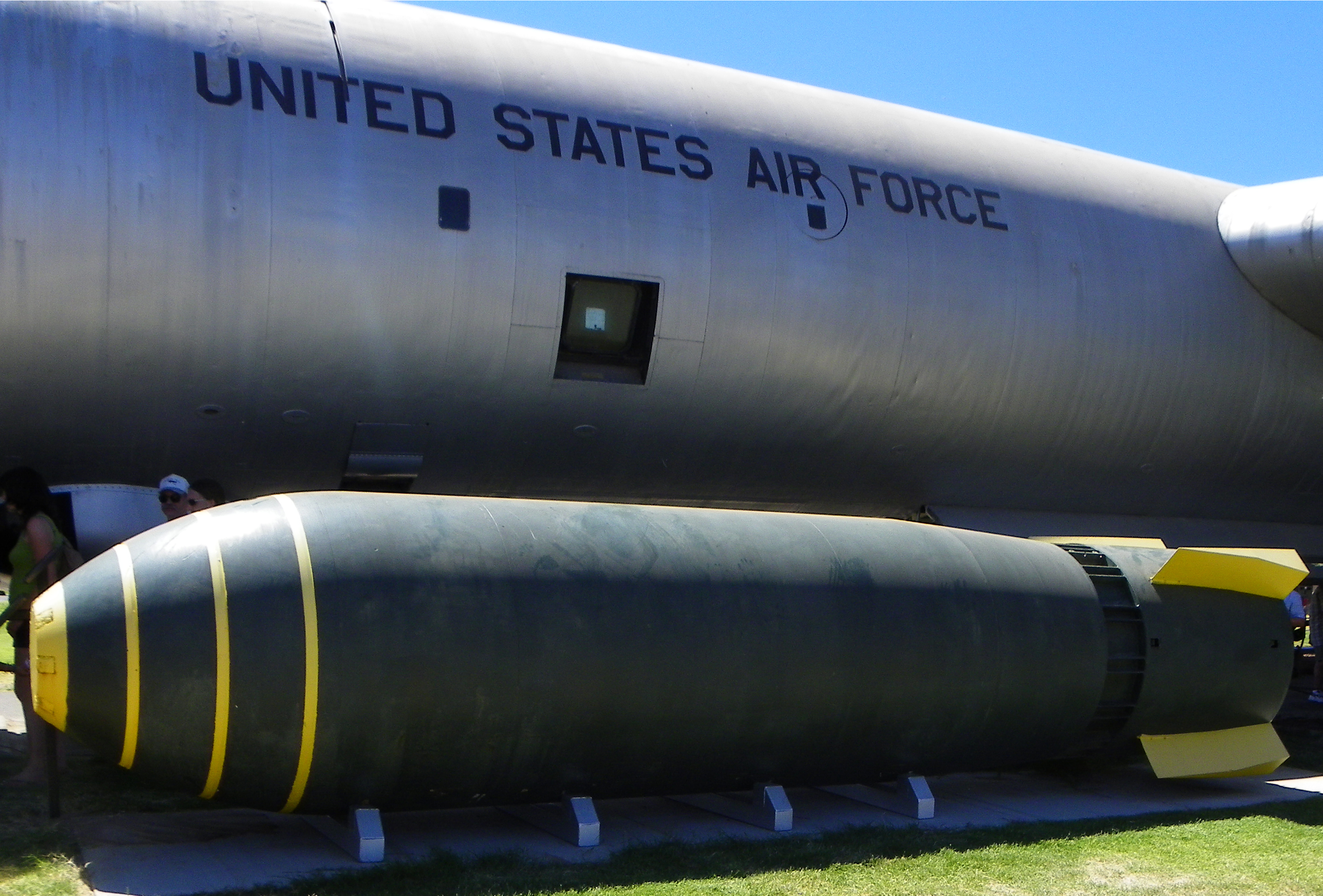 Mark 17 nuclear bomb next to a Convair RB-36H Peacemaker at the Castle Air Museum in Atwater, California.